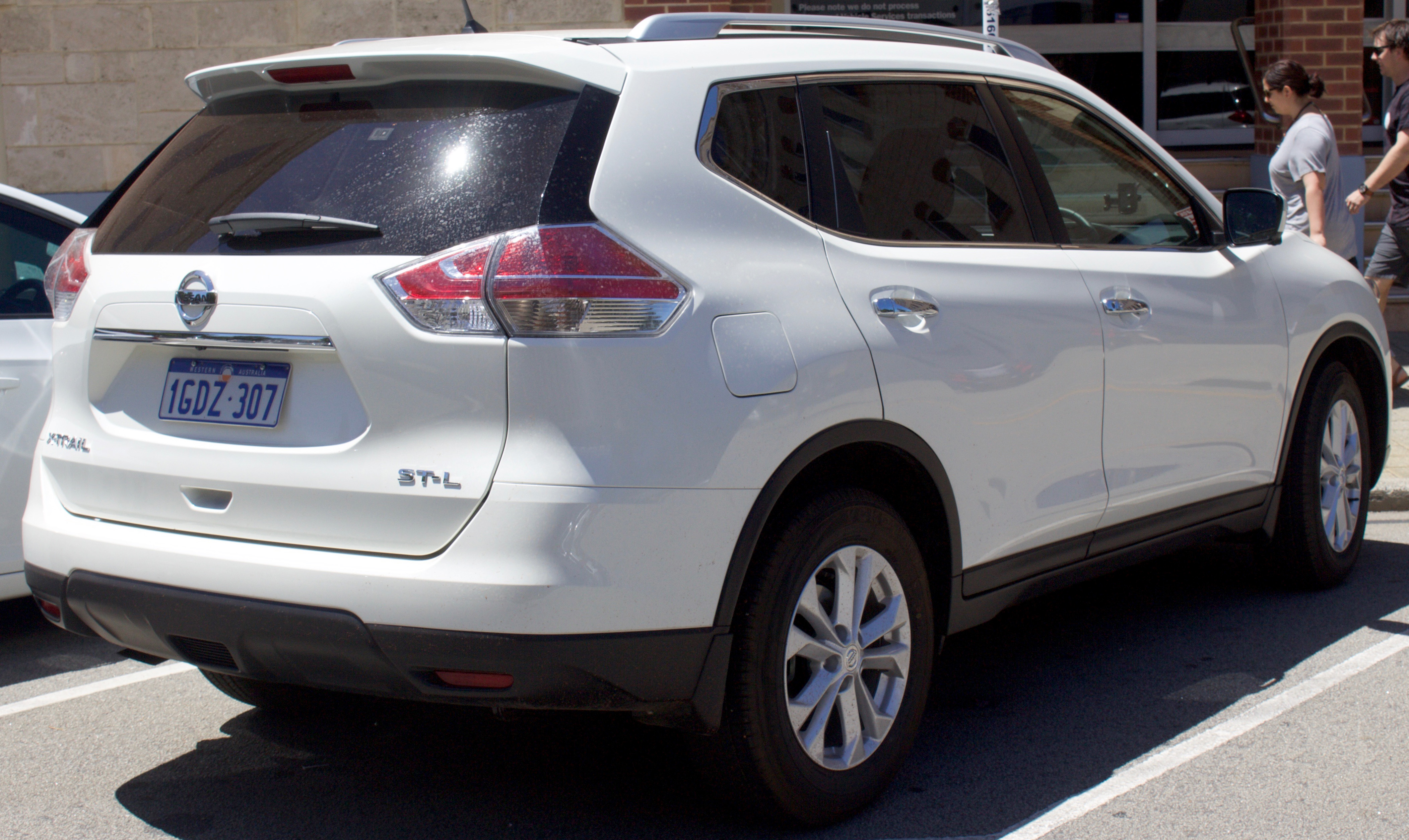 2015 Nissan X-Trail (T32) ST-L 2WD wagon. Photographed in Fremantle, Western Australia, Australia.